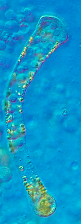 This photo shows Dicyema clavatum Furuya and Koshida, 1992 from Callistoctopus minor (Sasaki, 1920) taken by Hidetaka Furuya, the researcher of Dicyemida.